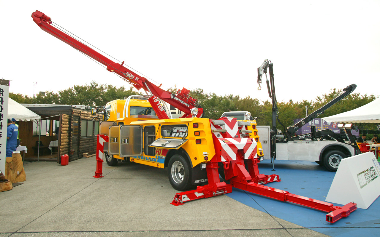 Century Towing equipment